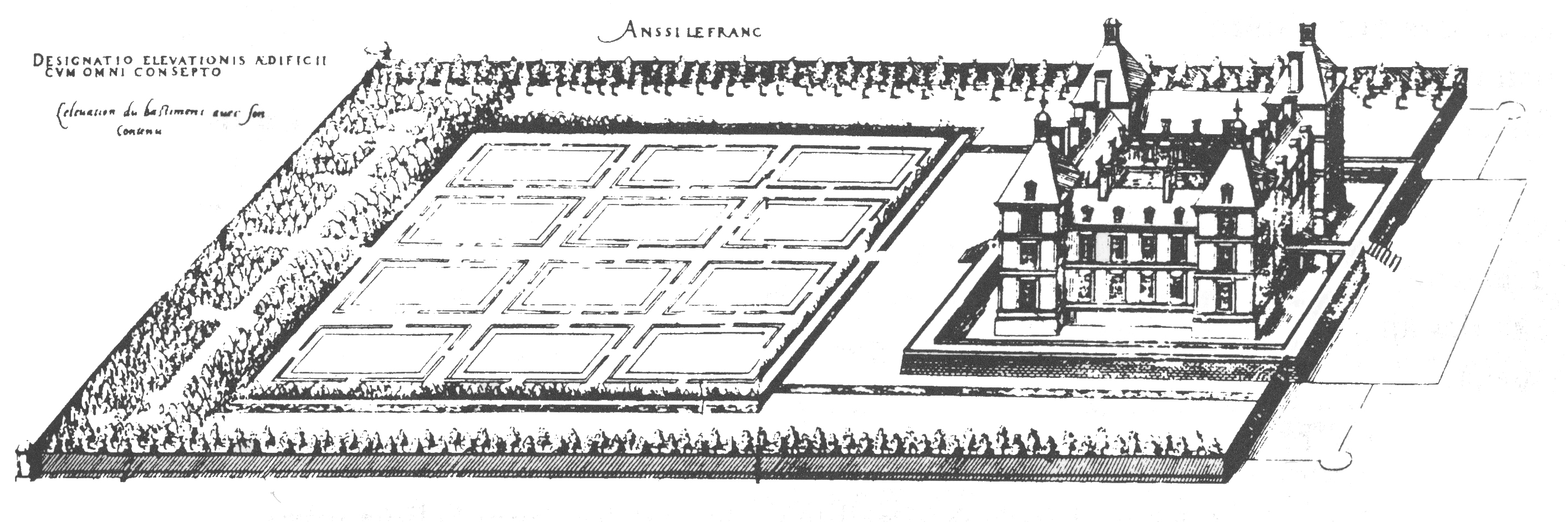 Château d'Ancy-le-Franc, 16th century engraving